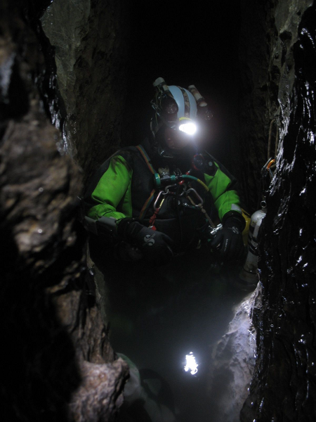 GNJ cave diver near sump at Wielka Sniezna Cave, in the West Tatra Mountains, Tatra National Park, southern Poland.